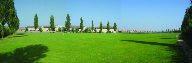 Brooke Weston City Technology College, Great Oakley. Large modern college situated on the edge of Corby. In the distance new housing estates abound. The village of Great Oakley is now part of the urban sprawl of Corby.